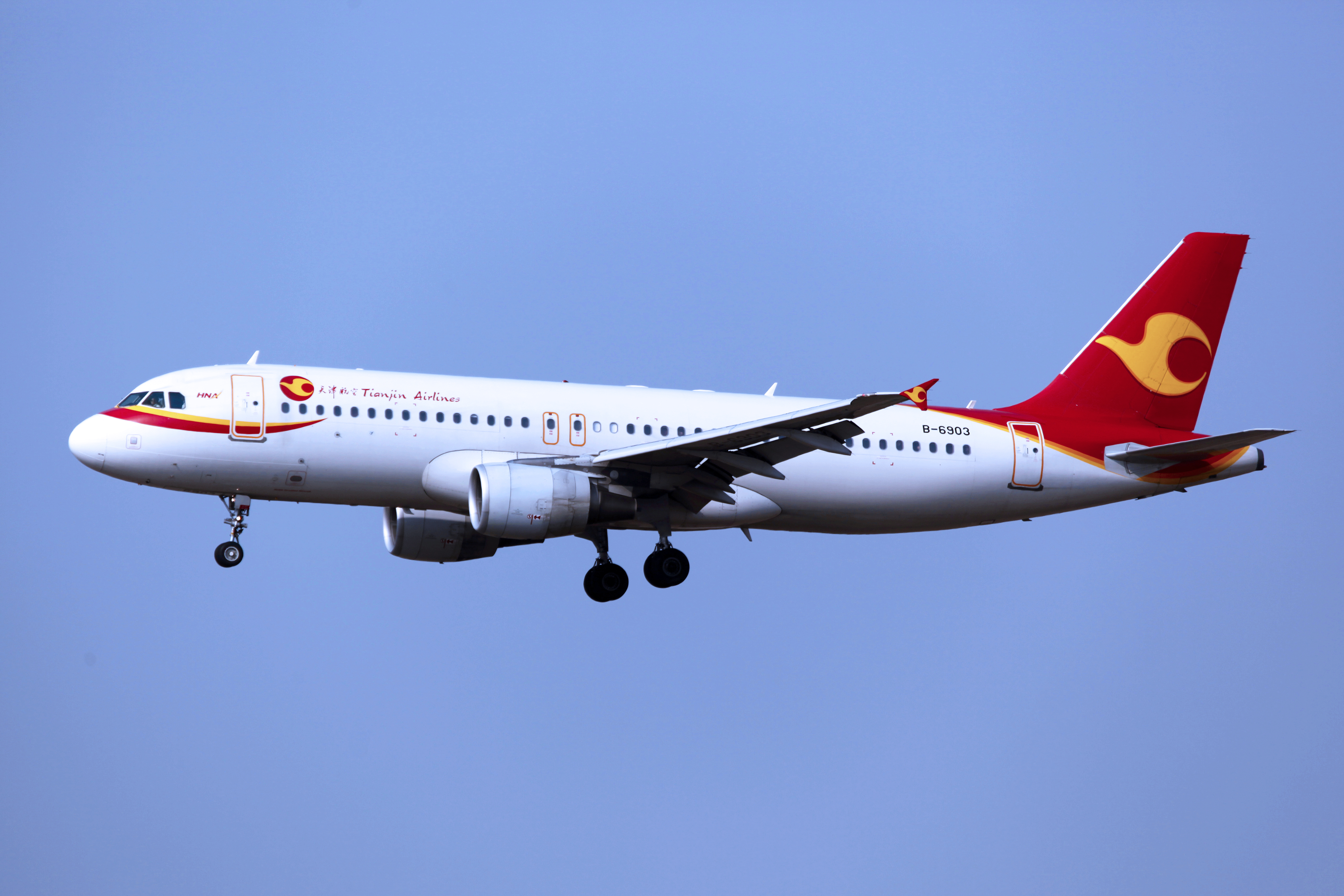 B-6903 | Tianjin Airlines | Airbus A320-214 | Qingdao Liuting International Airport [TAO]